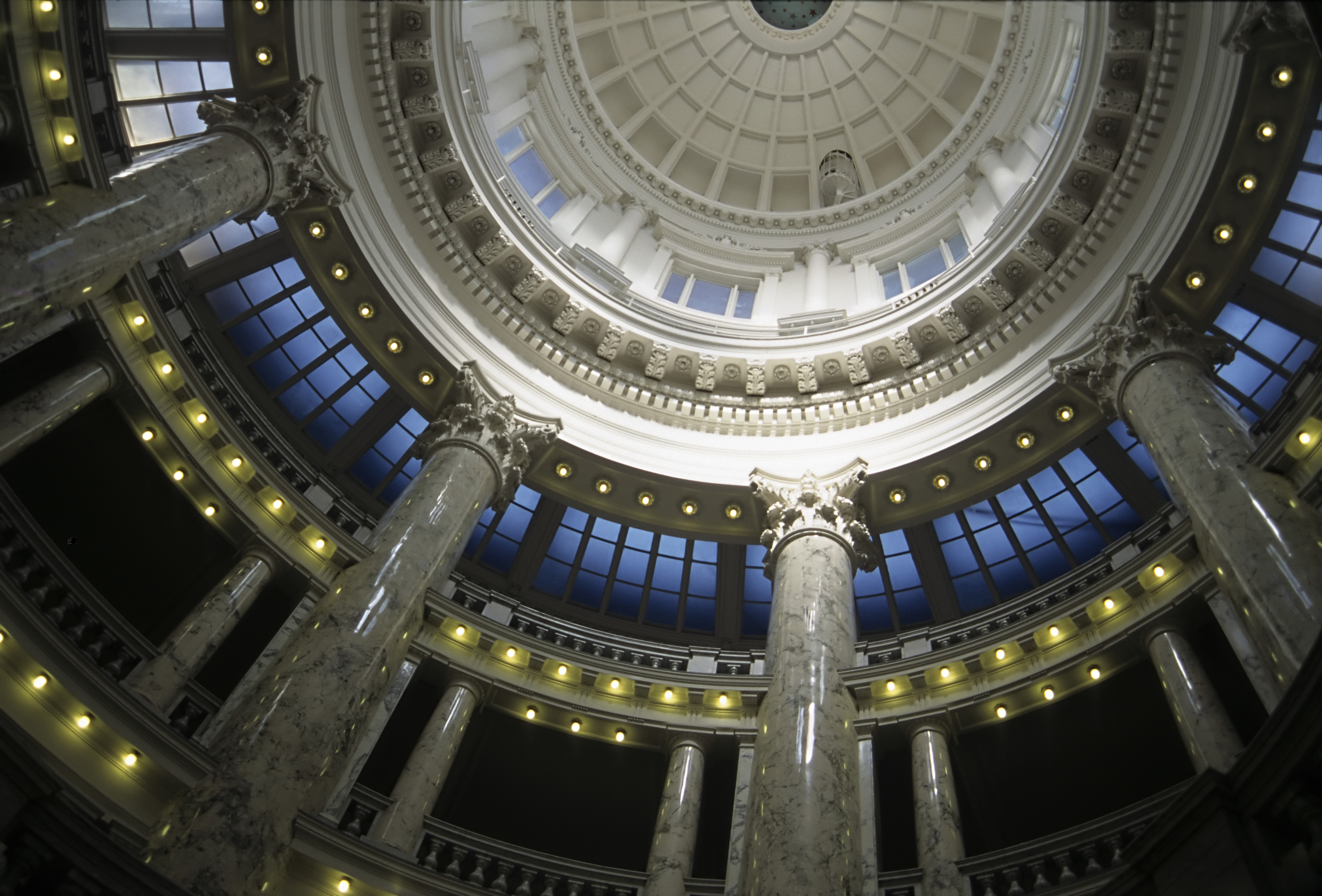 Idaho State Capitol Dome, Interior View